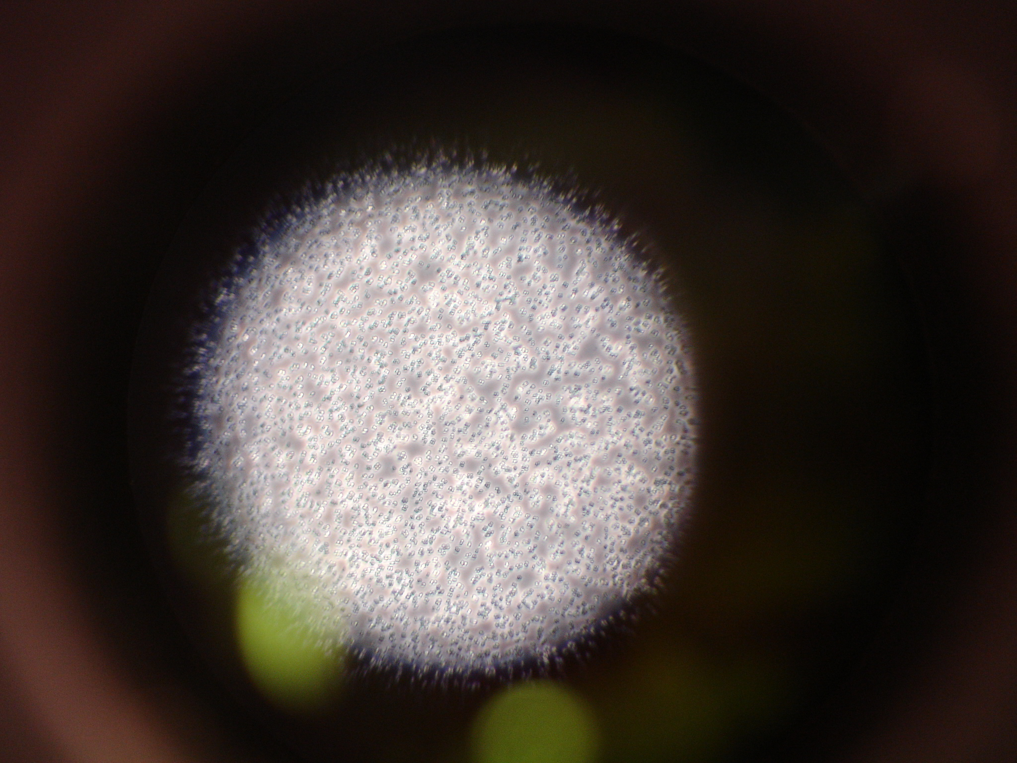 Support bacteria - they are the only culture some people have!